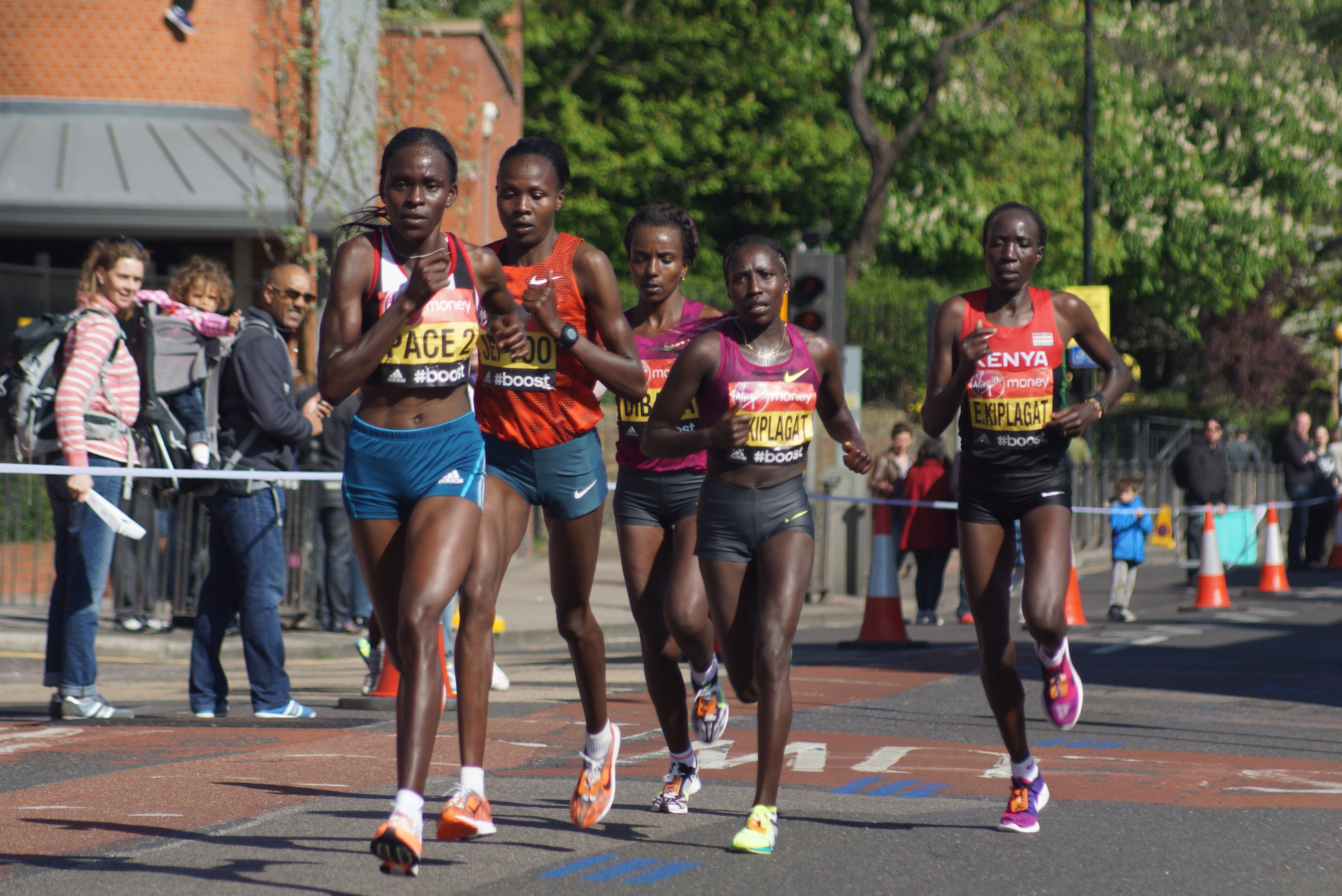 Photograph taken by Julian Mason on 13th April 2014 during the London Marathon. Location Westferry Road on the Isle of Dogs close to Arnhem Place and just before Millwall Outer Dock. Leading elite women racers behind a pacemaker. Pictured: Jéssica Augusto, Tirunesh Dibaba, Florence Kiplagat, Edna Kiplagat.